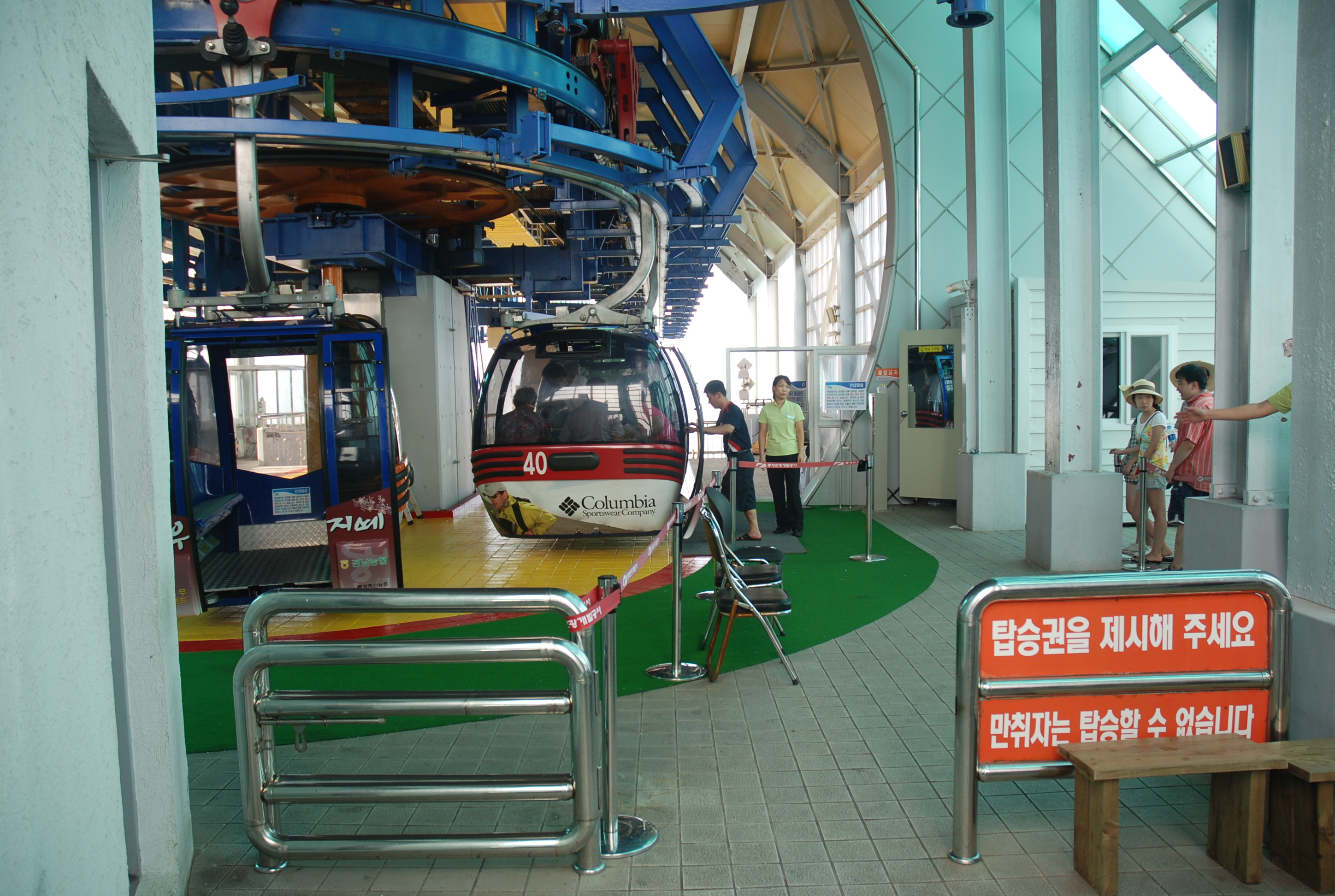 Tongyeong Cable Car upper Station